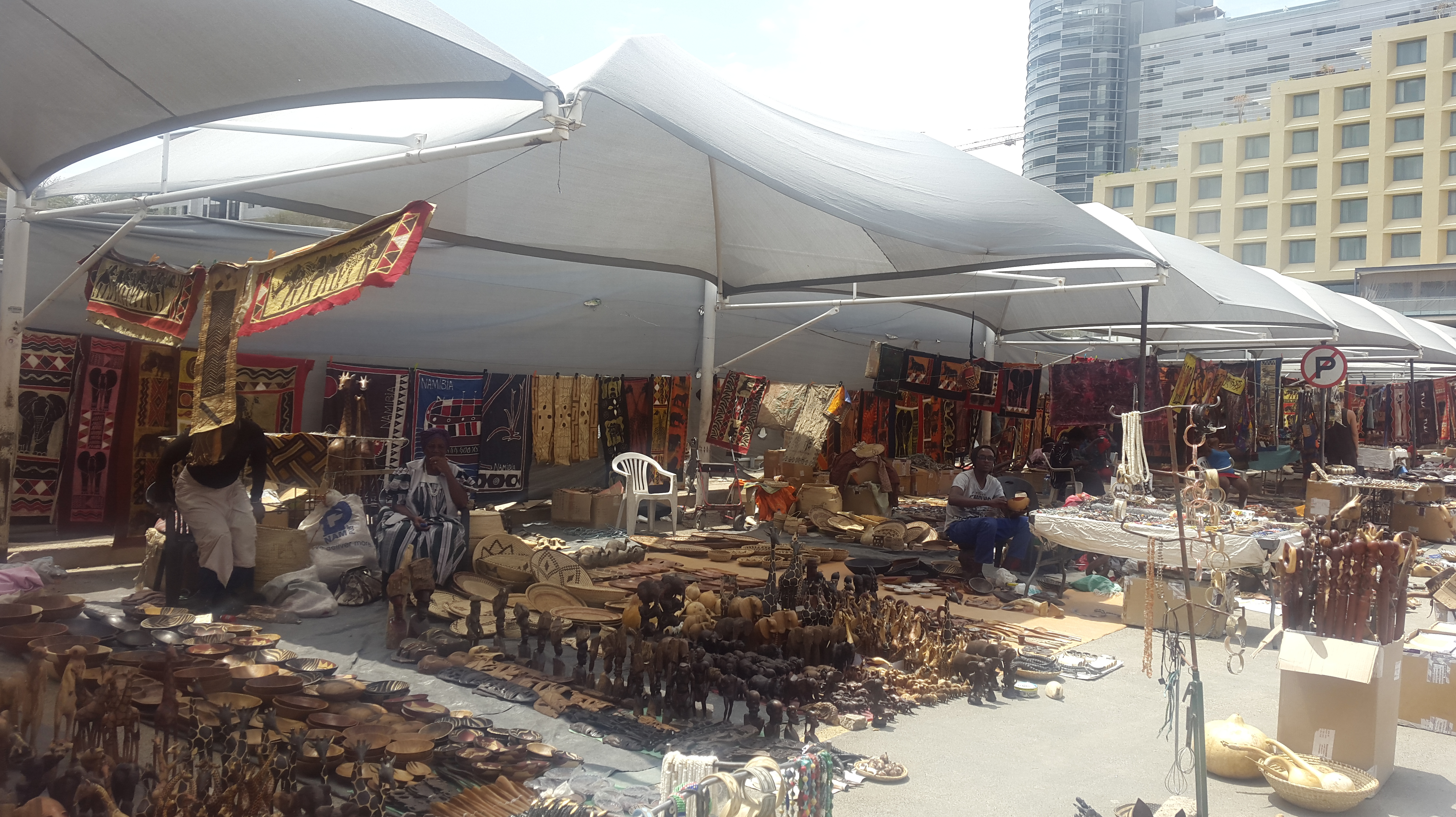 Arts and Crafts Shopping area for tourist in Windhoek This is an image of Cultural Fashion or Adornment from Namibia